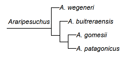 Topology for Araripesuchus recovered by the Soto et al 2011 analysis "A new specimen of Uruguaysuchus aznarezi..."